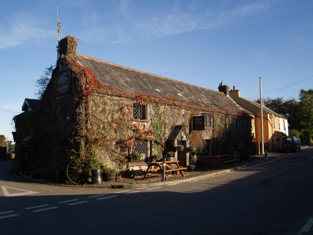 Eliot Arms, Tregadillett, near to Tregadillett, Cornwall, Great Britain. According to Link , the C14 building was a coaching inn in the C17 known as the Square and Compass. Having been a blacksmith's for a while it was restored in 1840 as the Eliot Arms, and now seems to have both names.